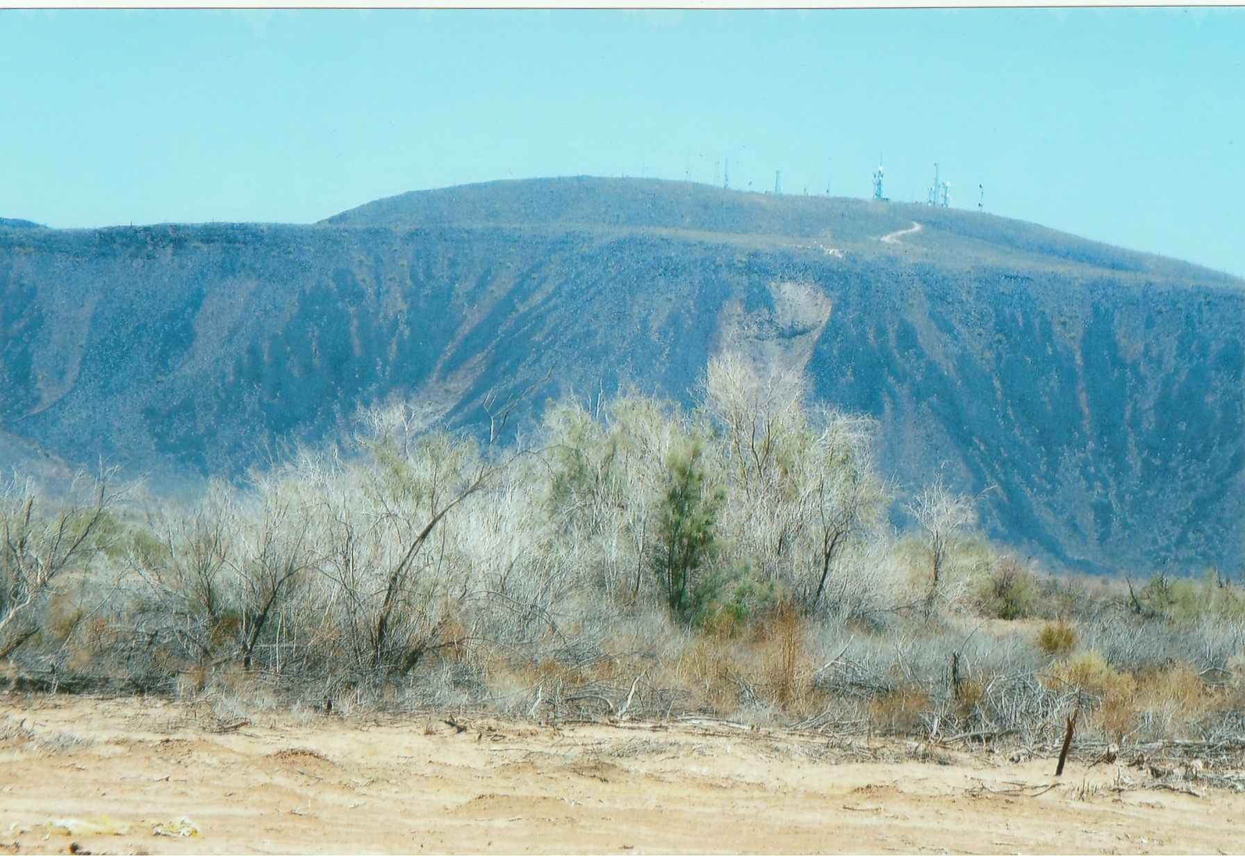 The Oatman Mountain located in Dateland on the Arlington-Sentinel Volcanic Field was named after the Oatman family who were massacred by the Apaches in 1850